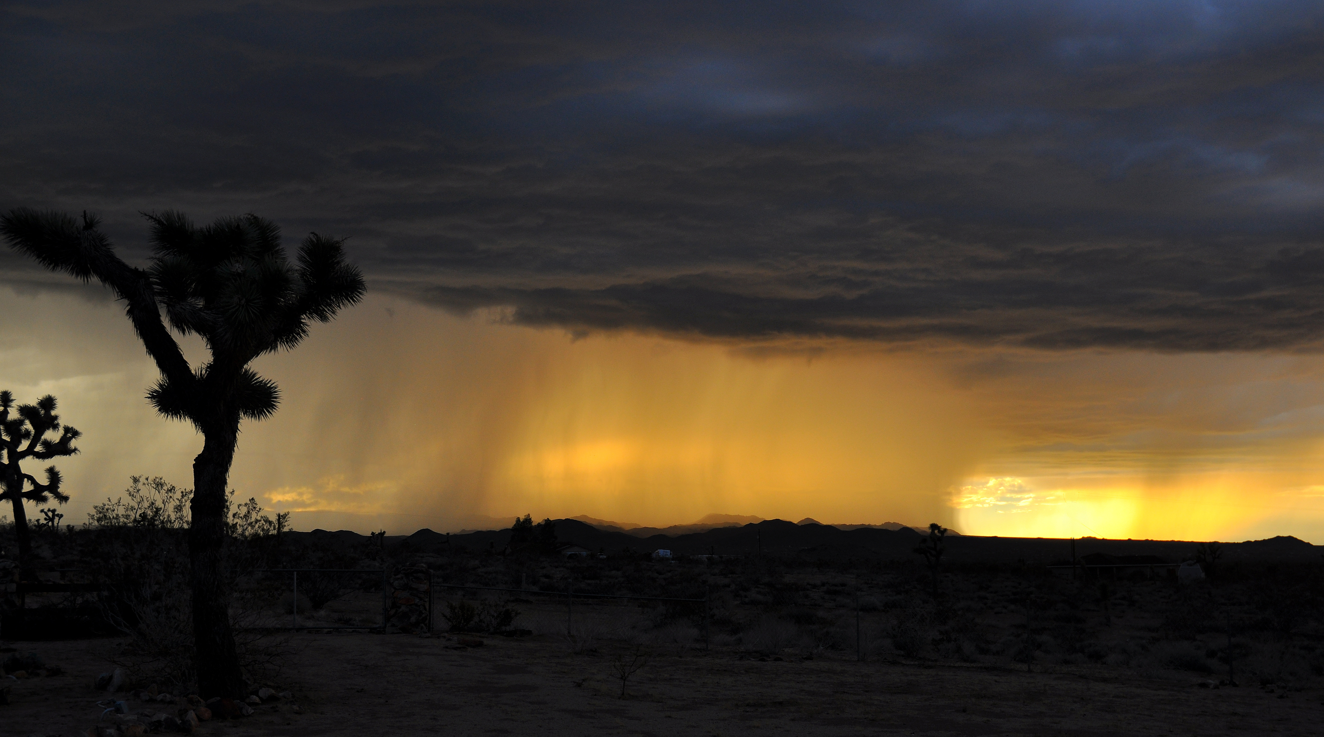 Rain Falling over Desert at Sunset